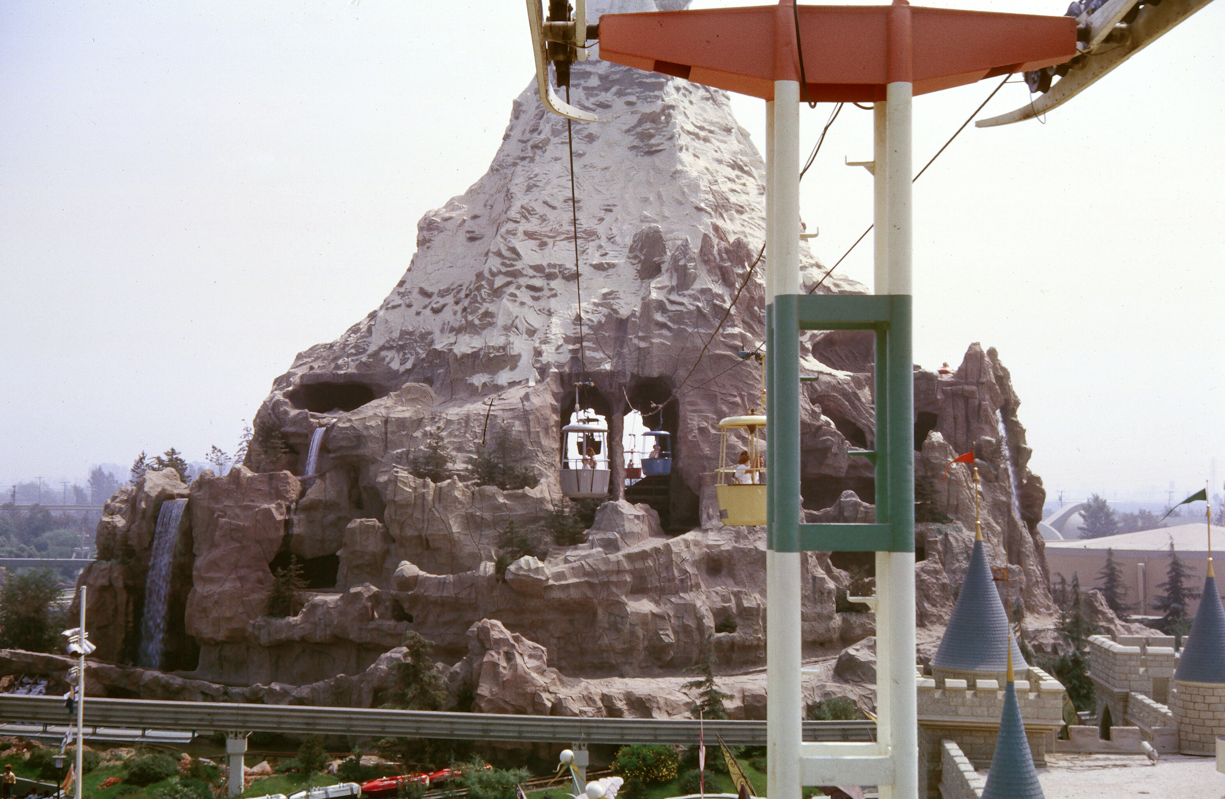 The Skyway to Tomorrowland from Fantasyland (and vice versa) in Disneyland originally passed through tunnels in the Matterhorn. Tall supports held up the cables between the Matterhorn and its destinations on either end of the ride. Waterfalls are visible on the left and right sides of the Matterhorn.